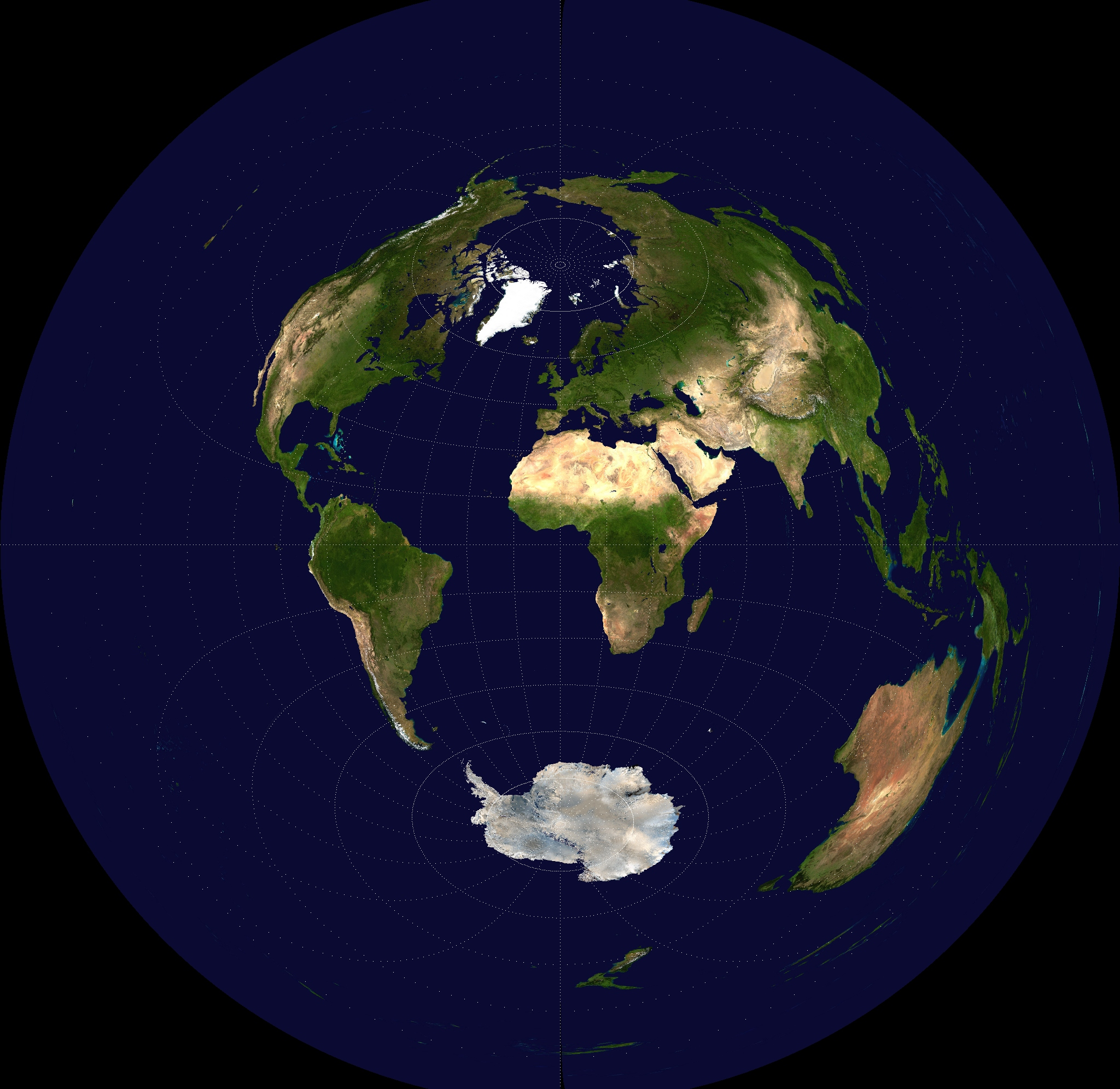 An azimuthal equidistant projection of a Visible Earth image collected by the Earth Observatory experiment of the U.S. Government's NASA space agency. The reticle is 15 degrees in latitude and longitude.